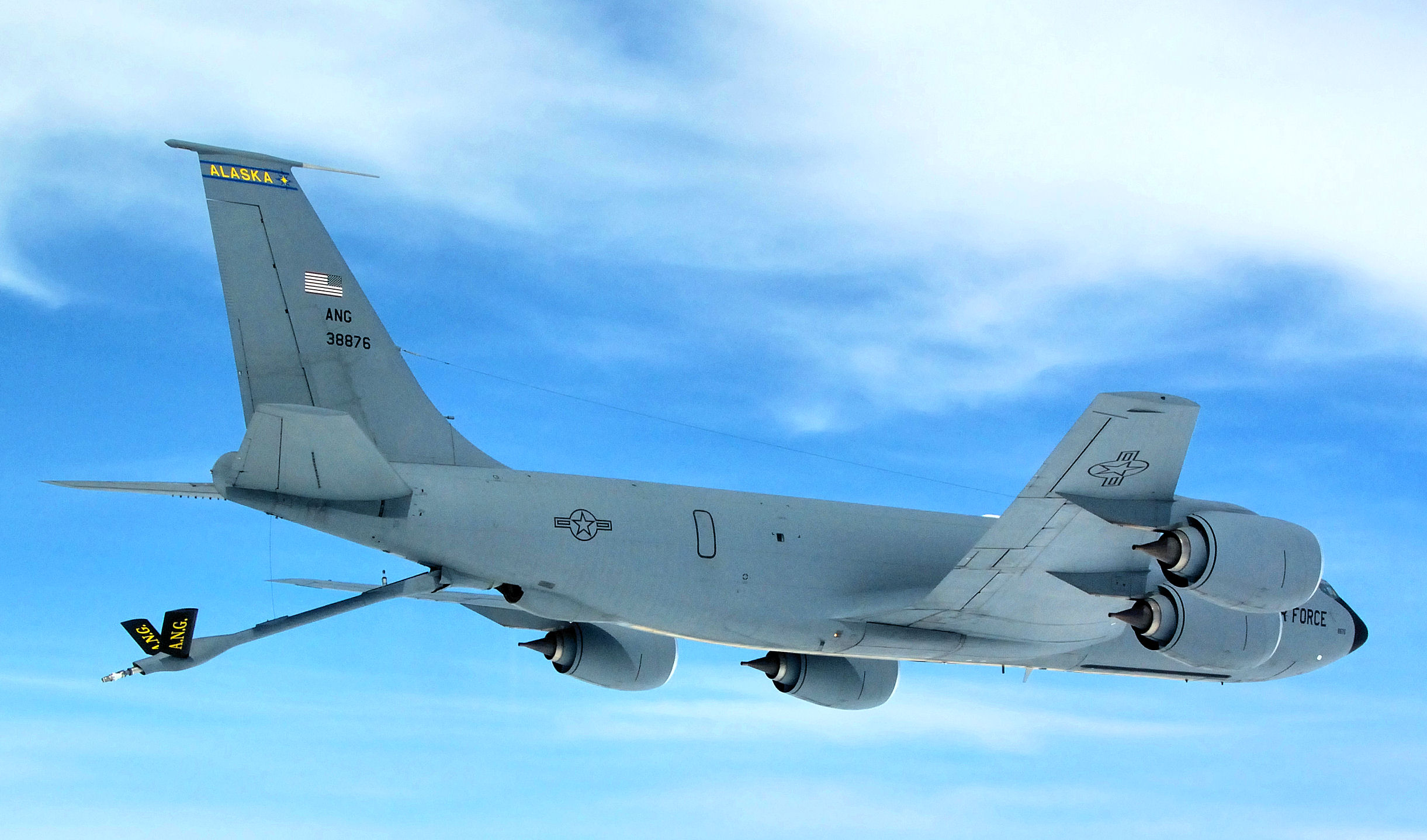 168th Air Refueling Squadron - Boeing KC-135R Stratotanker 63-8876